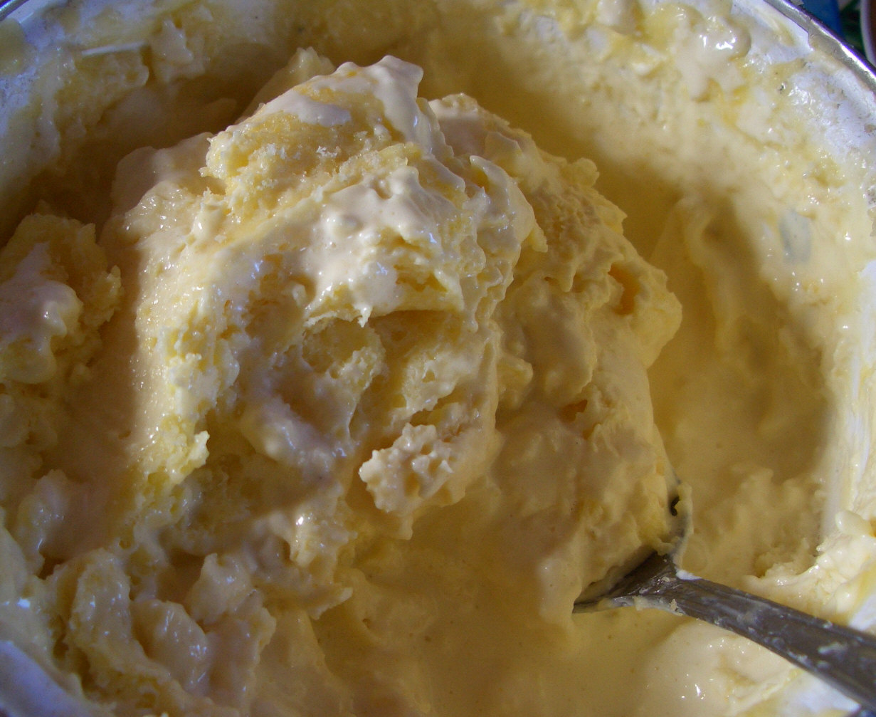 Urum.